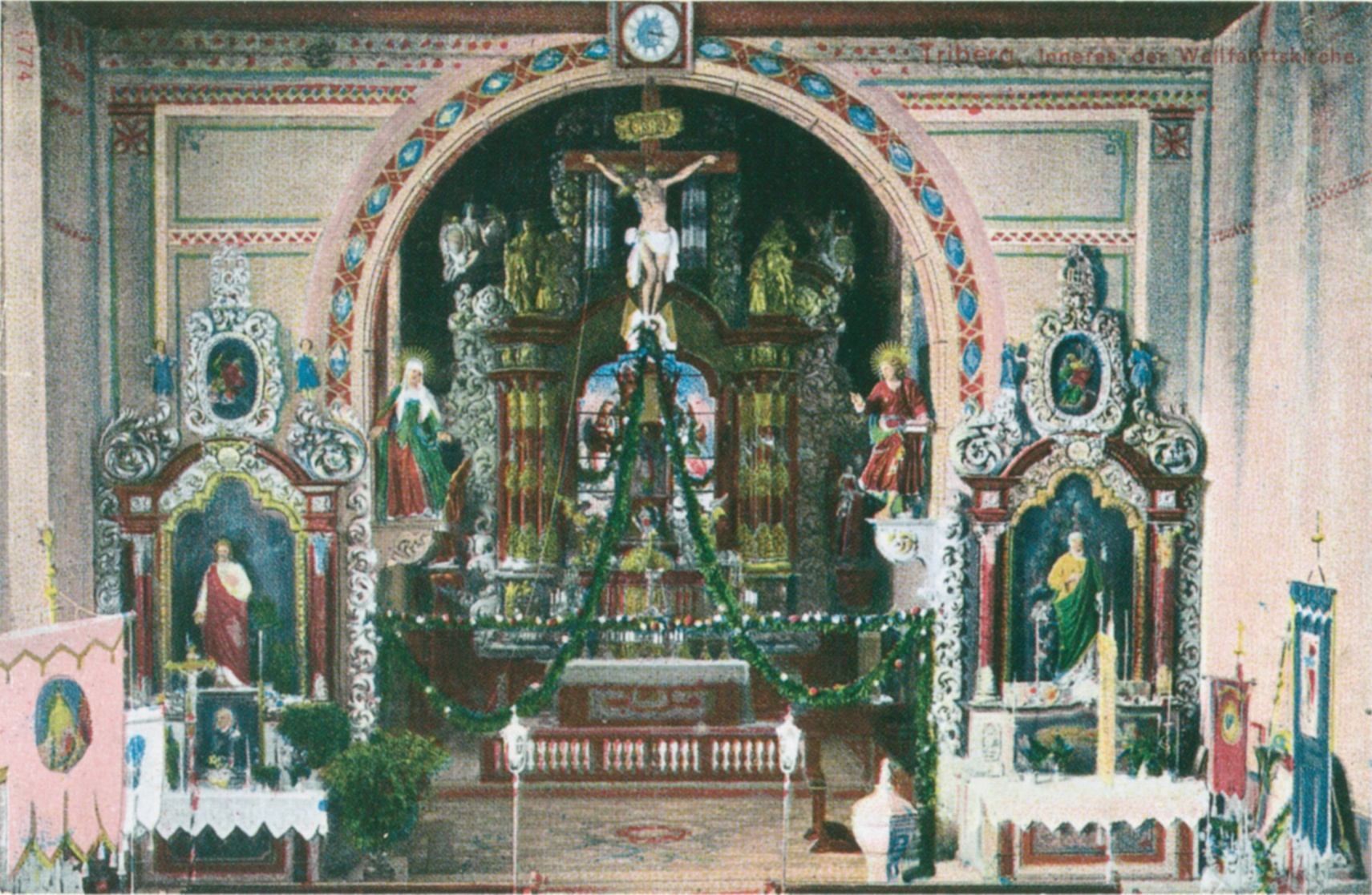 Interior of pilgrimage church Maria in de Tanne, Triberg im Schwarzwald, in AD 1911